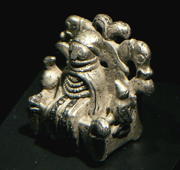 Photo of Odin from Lejre. Silver figurine, height 18 mm, weight 9 grams. Dated around 900 AD and identified as Odin on his throne (Hlidskjalf) with his two ravens Huginn and Muninn. Found at Lejre, Denmark at excavations in september 2009. Displayed at Roskilde Museum.